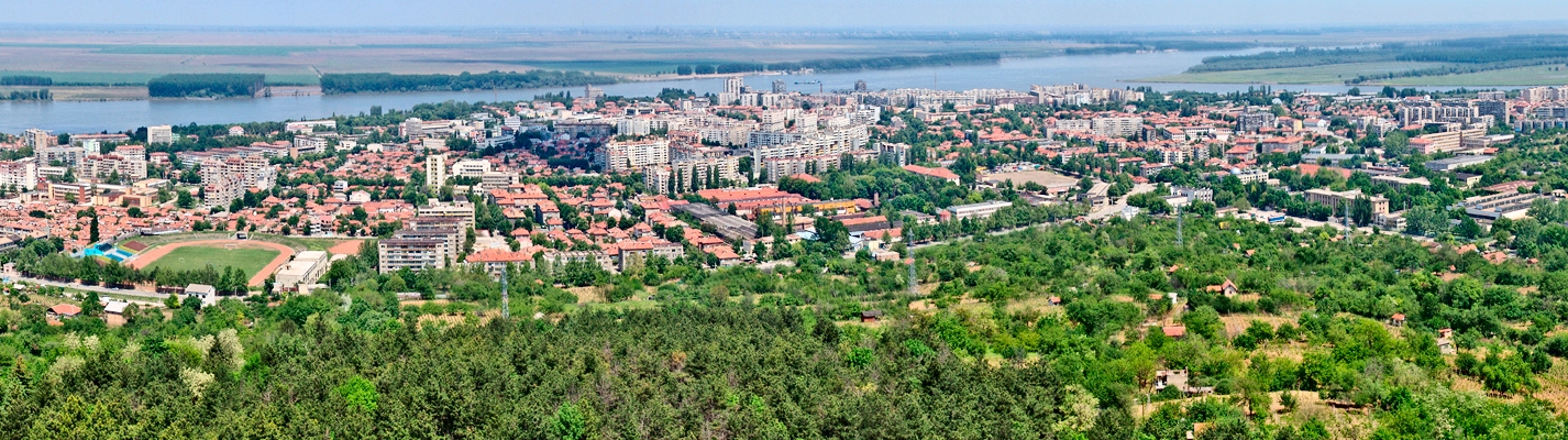 View of Silistra, Bulgaria